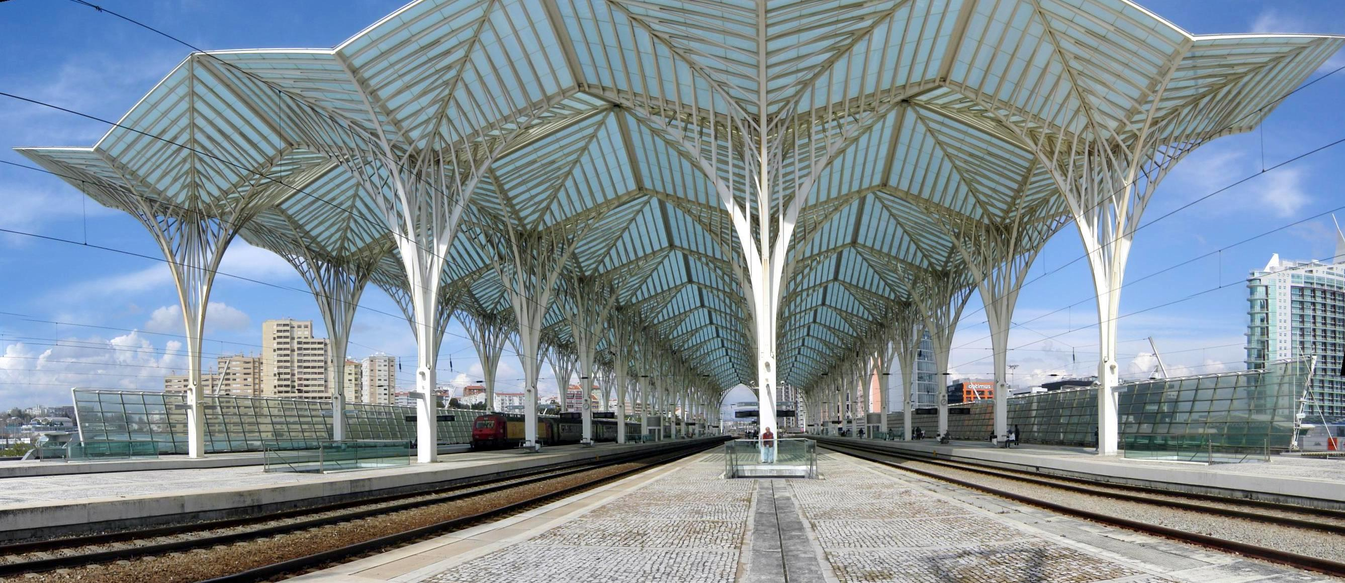 Gare do Oriente train station, Lisbon, Portugal